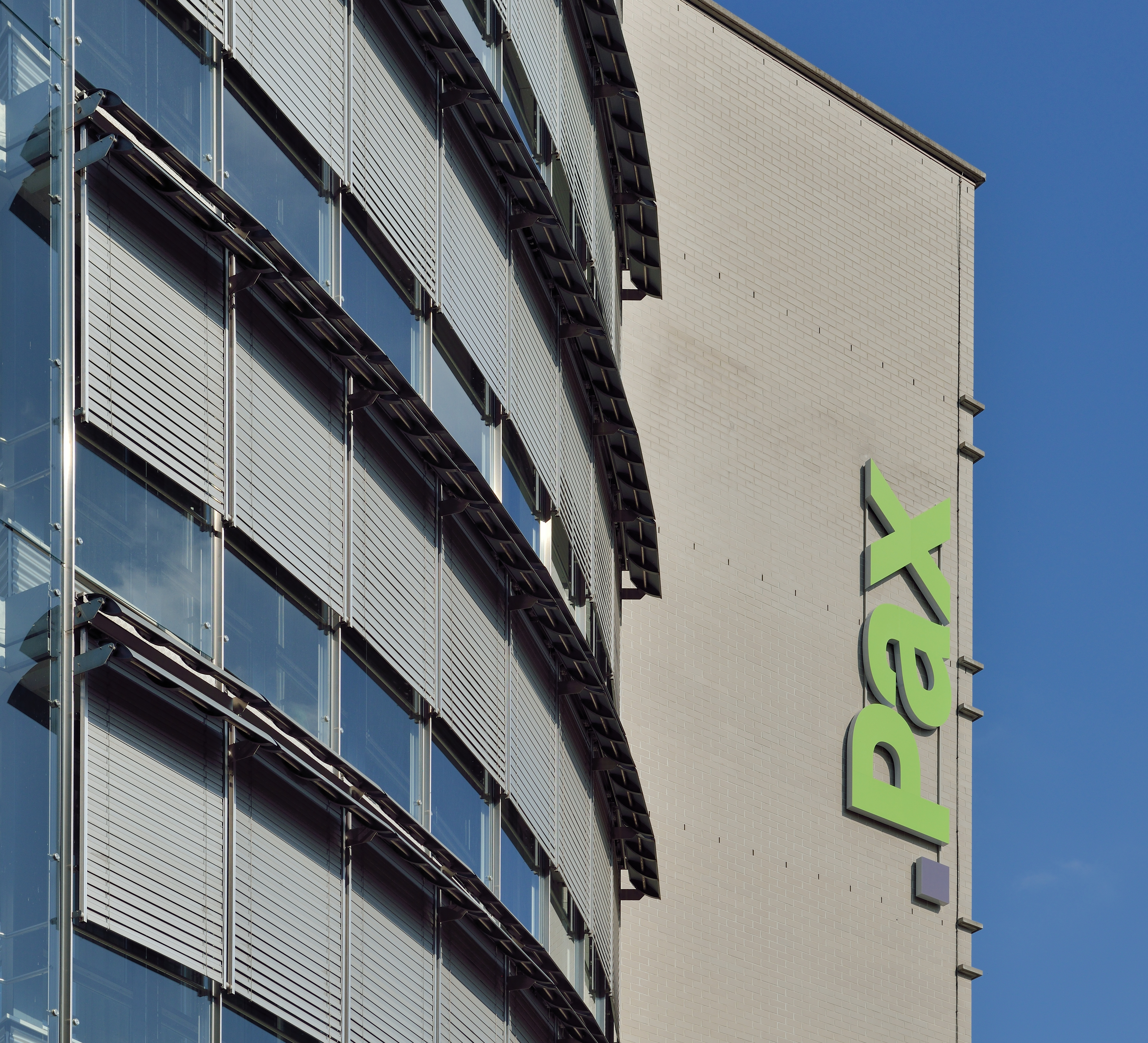 Pax Life Insurance